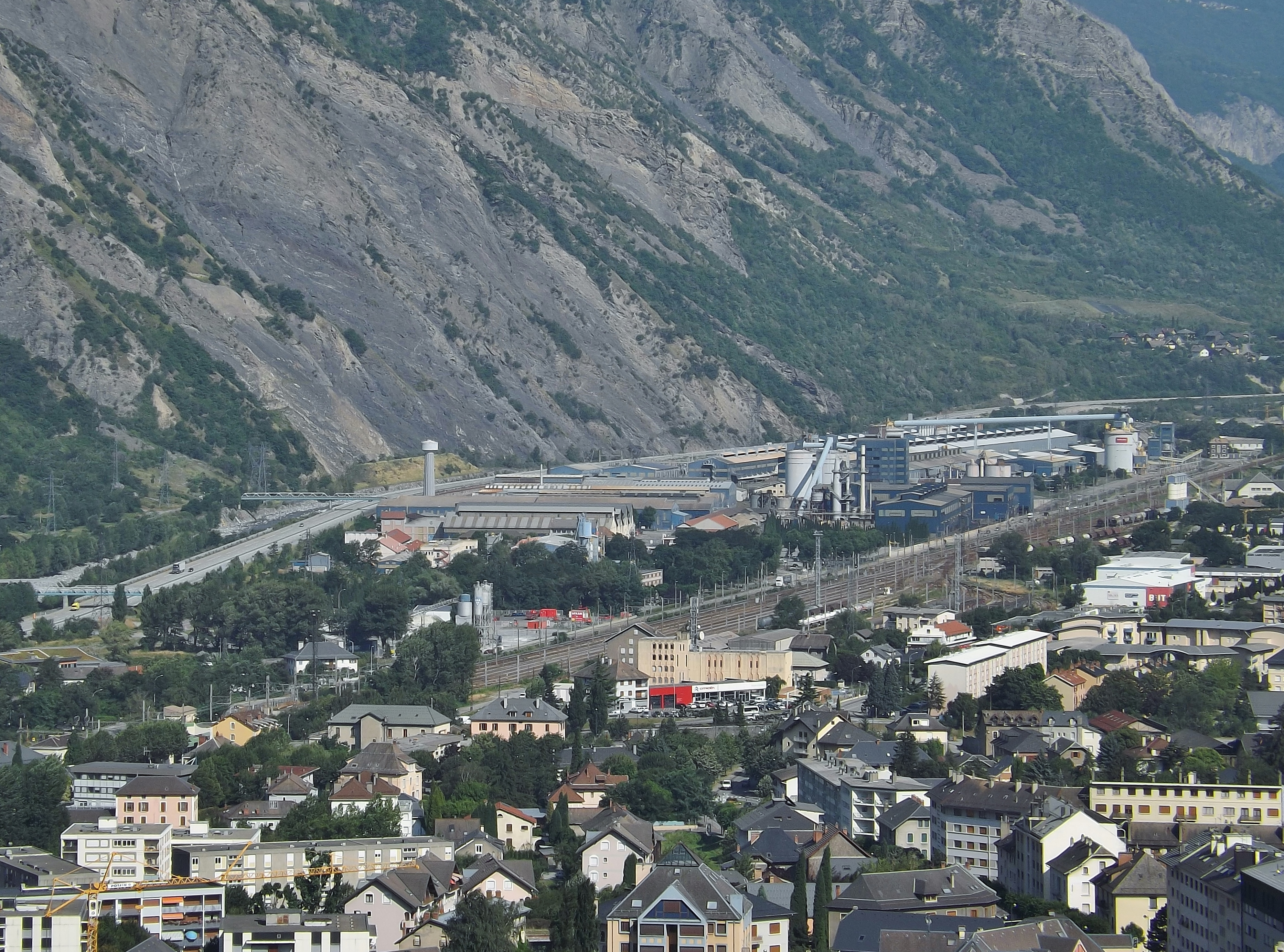 Sight of Rio Tinto Alcan (Canadian aluminium producer) industrial area, in Saint-Jean-de-Maurienne (Maurienne valley), Savoie, France.